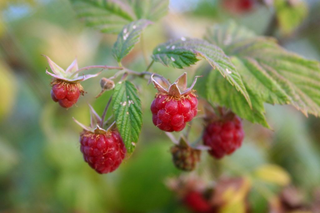 wild raspberries close up. They are a bit smaller than cultivated ones.